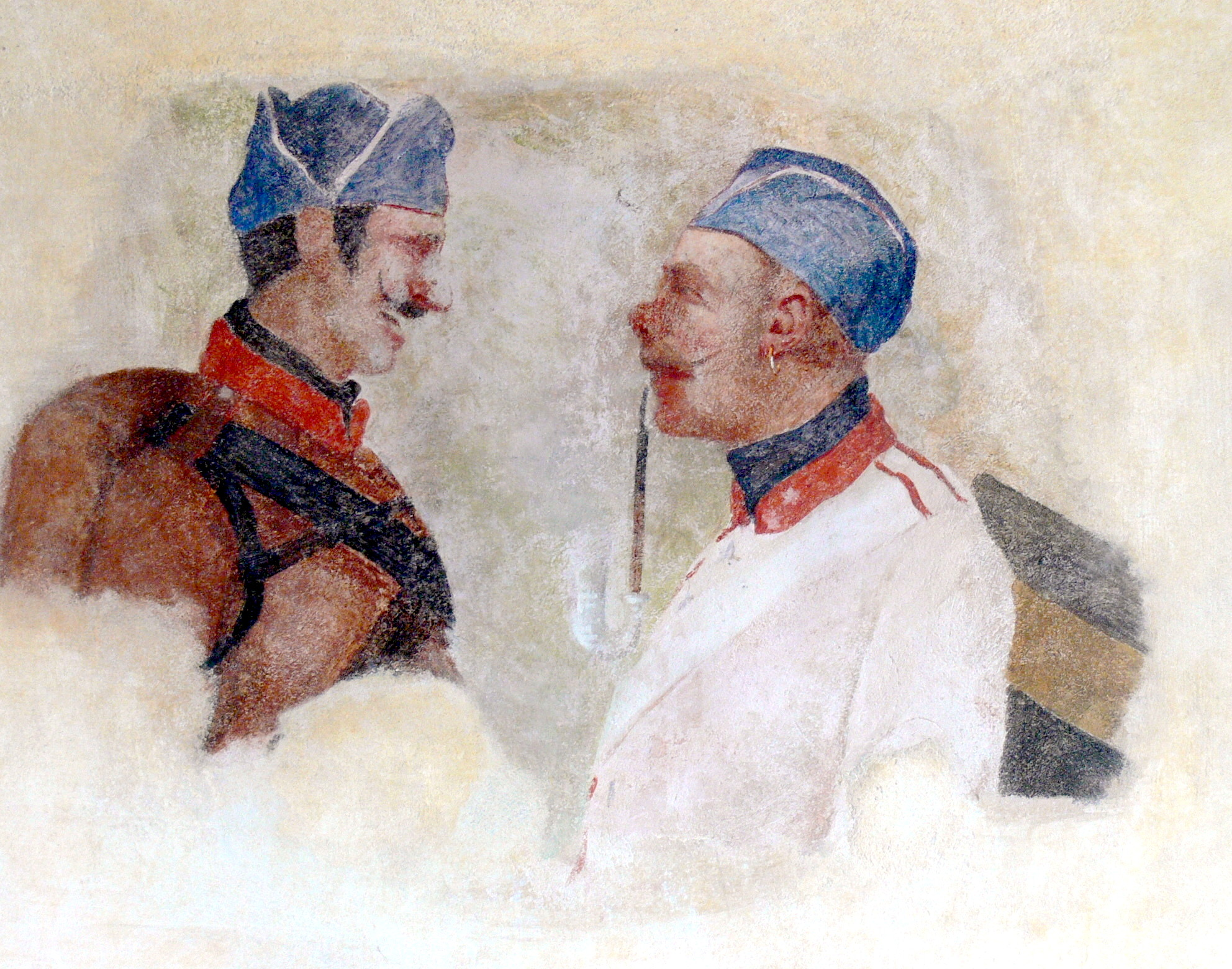 San Martino della Battaglia ( Italy ). Tower: Fragment of a fresco showing soldiers of Austria-Hungary.